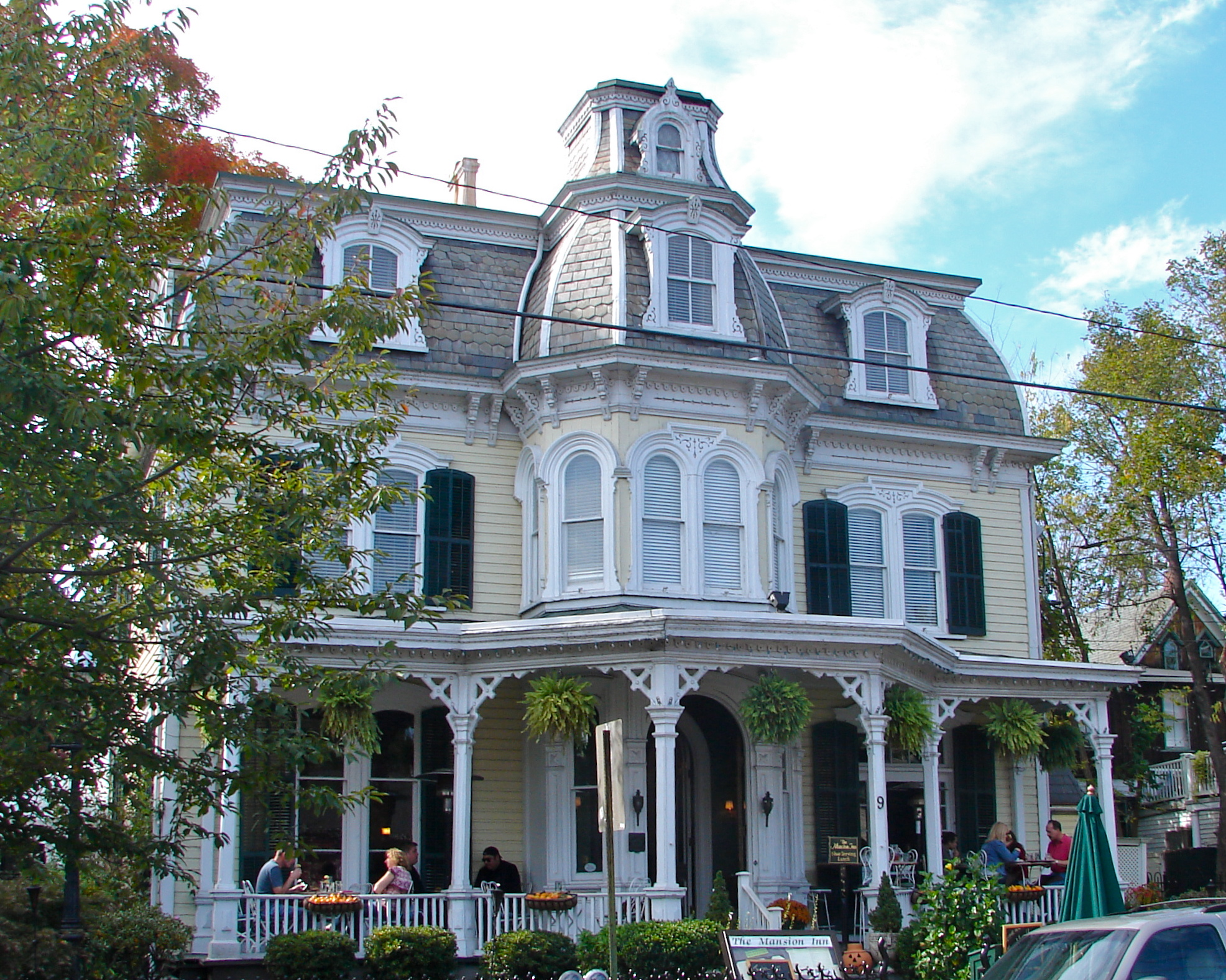 Mansion Inn in New Hope Village District, on the NRHP since March 6, 1985. The historic district is roughly bounded by Old Mill Road, Stockton Avenue, Ferry, Bridge, Mechanic, Randolph, Main, Coryell, and Waterloo Streets, in New Hope, New Jersey